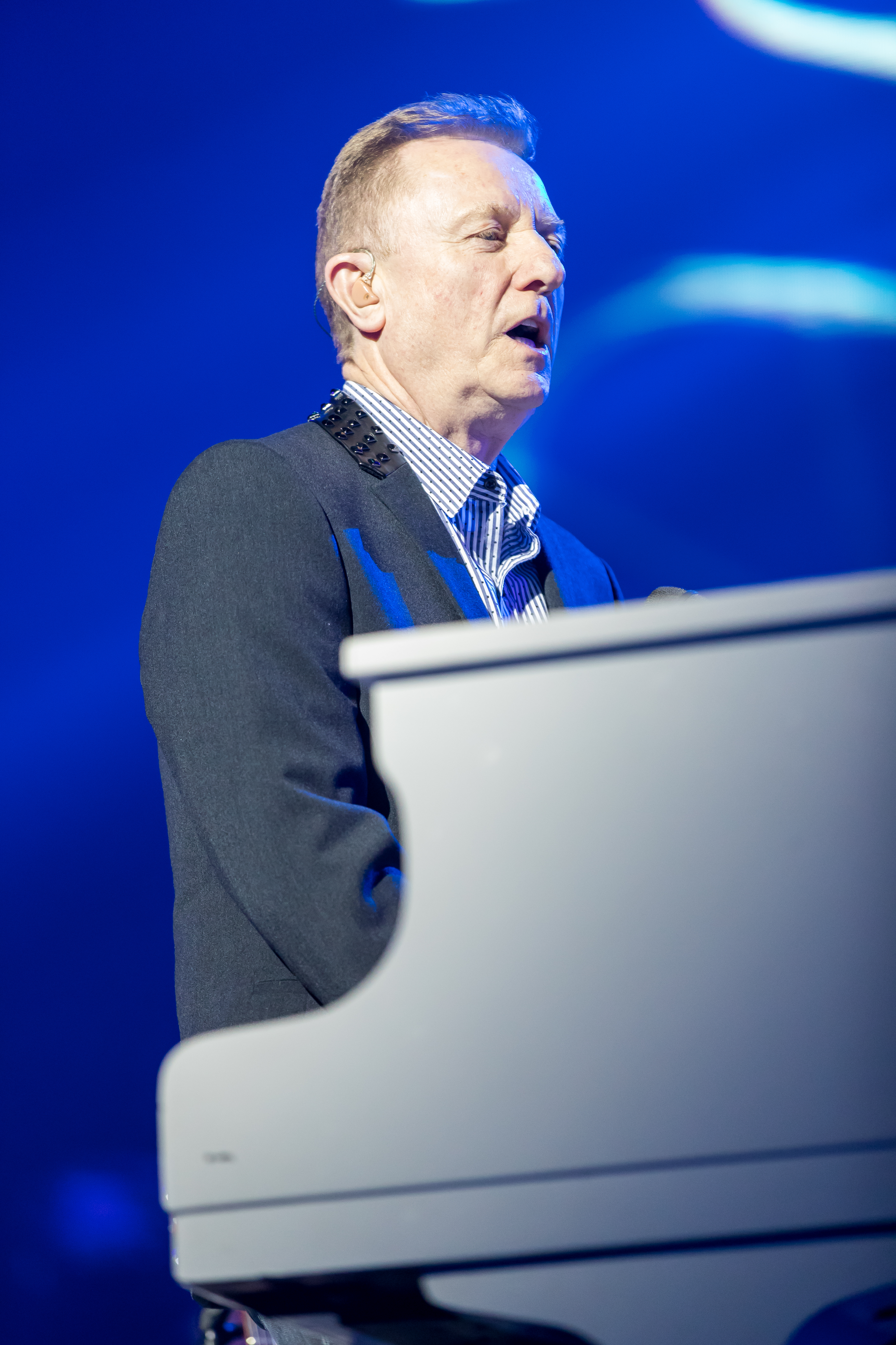 John Miles during Night of the Proms at SAP Arena, Mannheim, Baden Württemberg, Germany on 2016-11-25, Photo: Sven Mandel Simple Minds, Natasha Bedingfield, Stefanie Heinzmann, John Miles, Ronan Keating, Time For Three